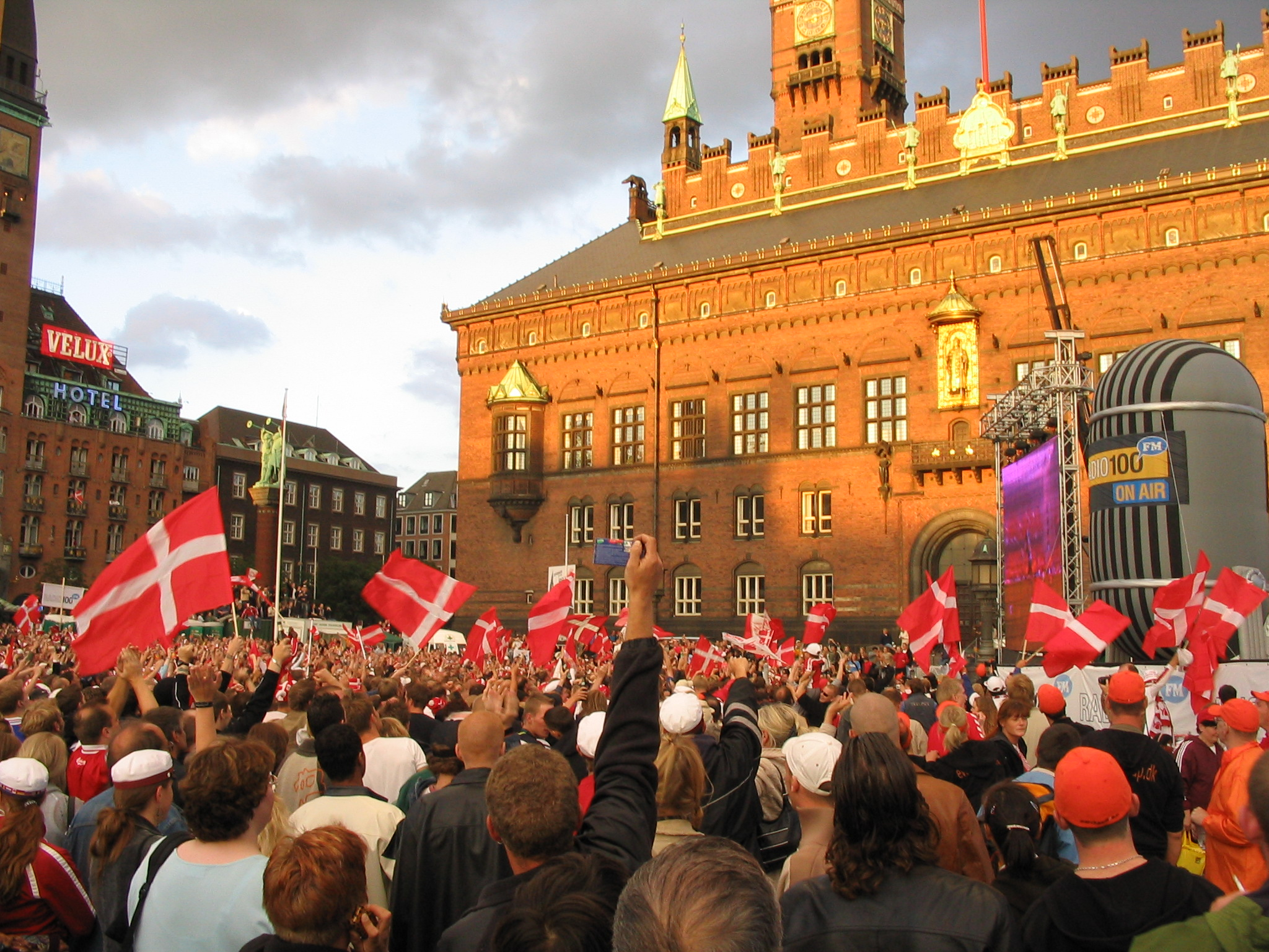 A crowd of people in the main square of Copenhagen (in front of the town hall) watching a soccer game (Denmark v Sweden) on a big screen. I think Denmark just scored a goal.